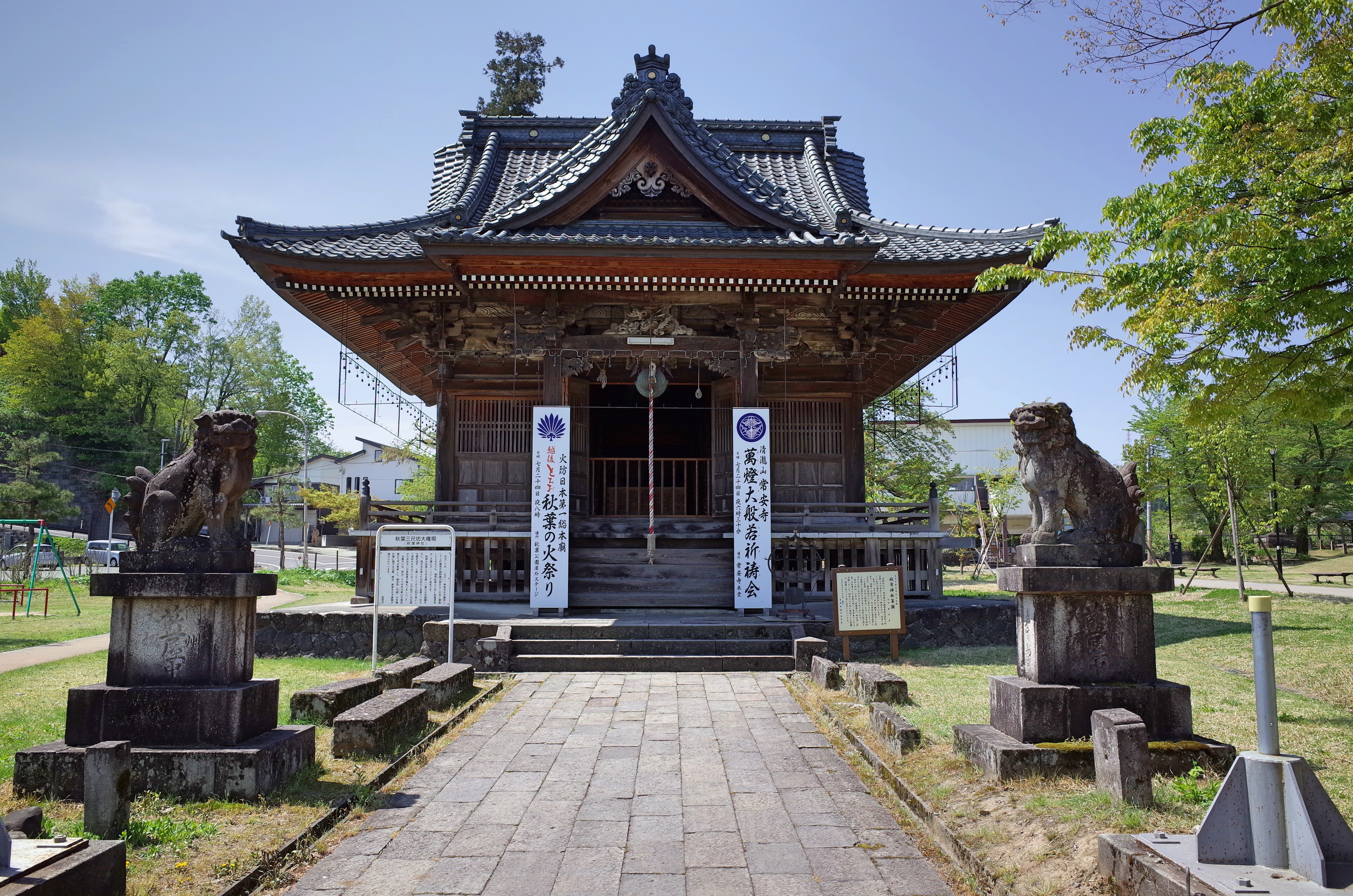 Akiba Jinja (Akiba Sanjakubō Daigongen), a Shinto shrine in Nagaoka, Niigata Prefecture, Japan